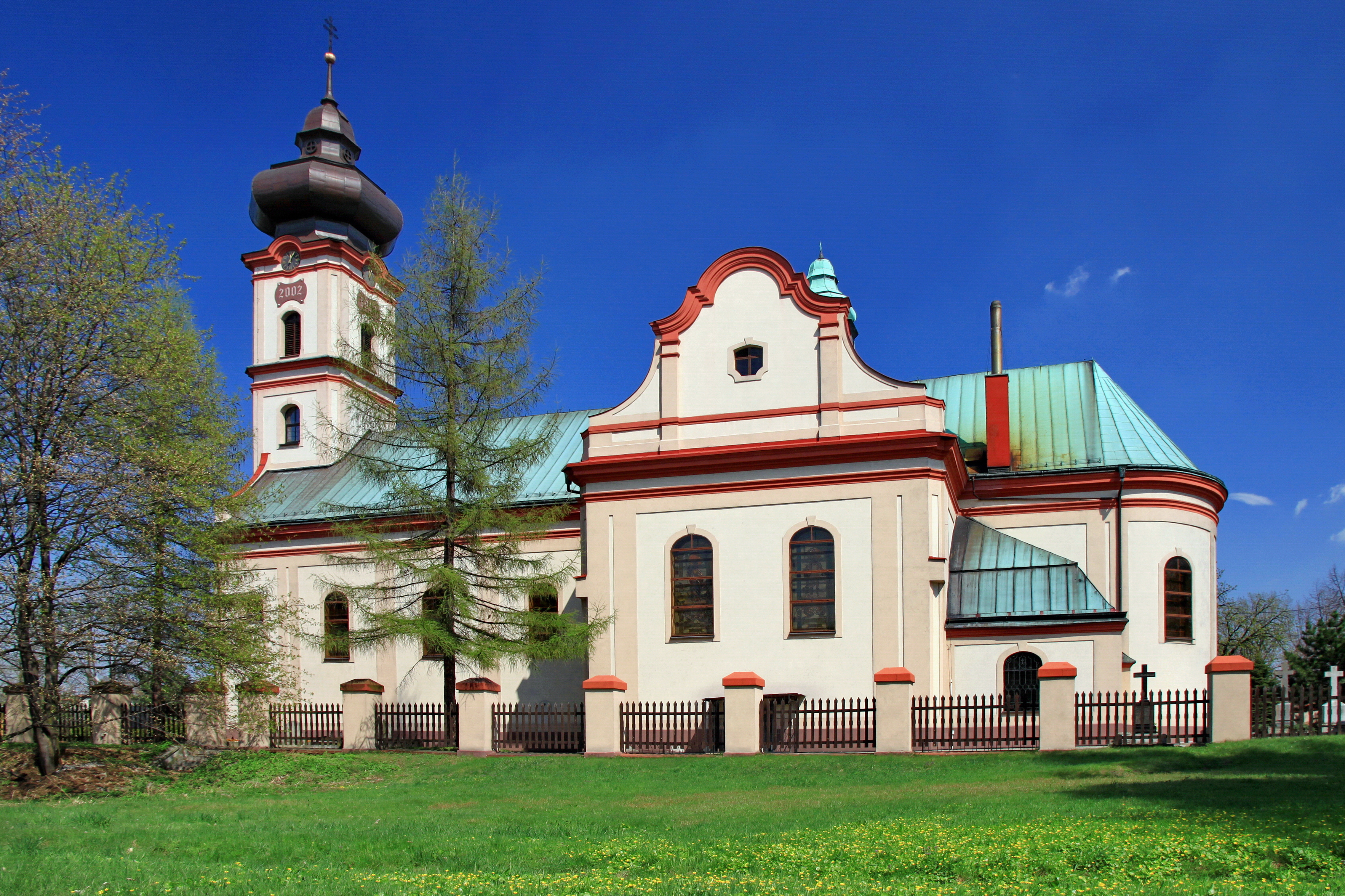 Dębieńsko Wielkie, Saint George church, build in 1800-1802, 1913